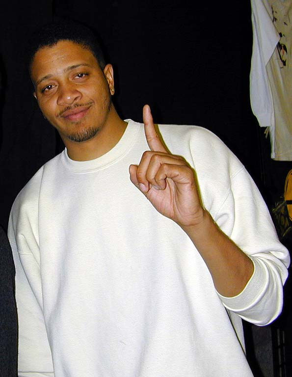 Rapper Chali 2na from Jurassic 5